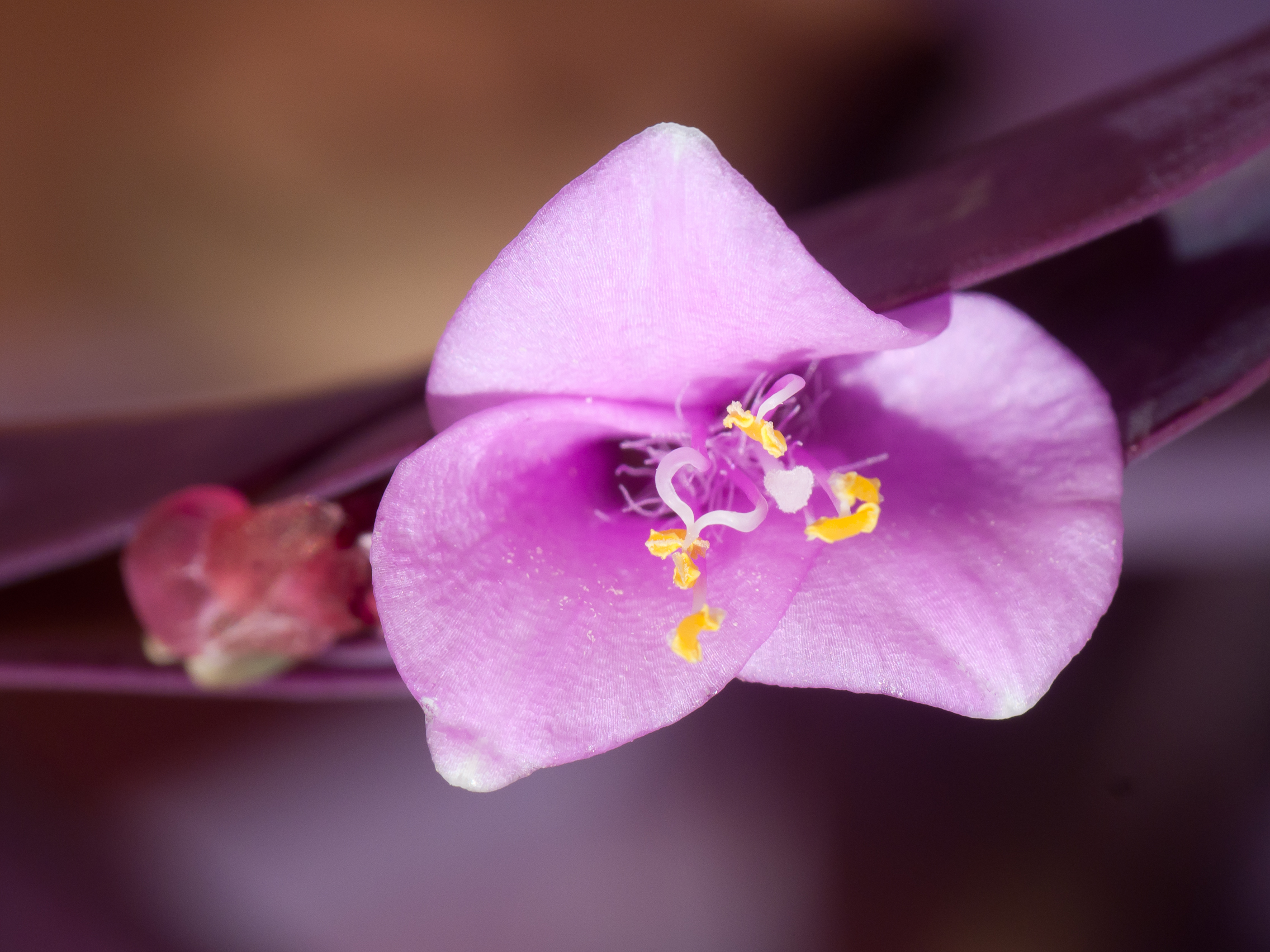 Tradescantia pallida, Quintana Roo, México